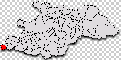 Map Maramures County, Romania